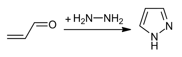 Drawn by User:Sannse